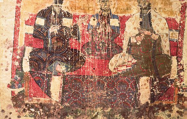 Gospel of King Gagik of Kars, XIth century, Portrait of King Gagik, his wife and daughter (Jerusalem, Armenian Patriarchate, MS 2556)